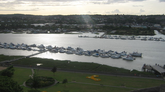 View of River Medway, seen from Rochester Castle The moorings of Rochester and Strood can be seen from the roof of the castle.